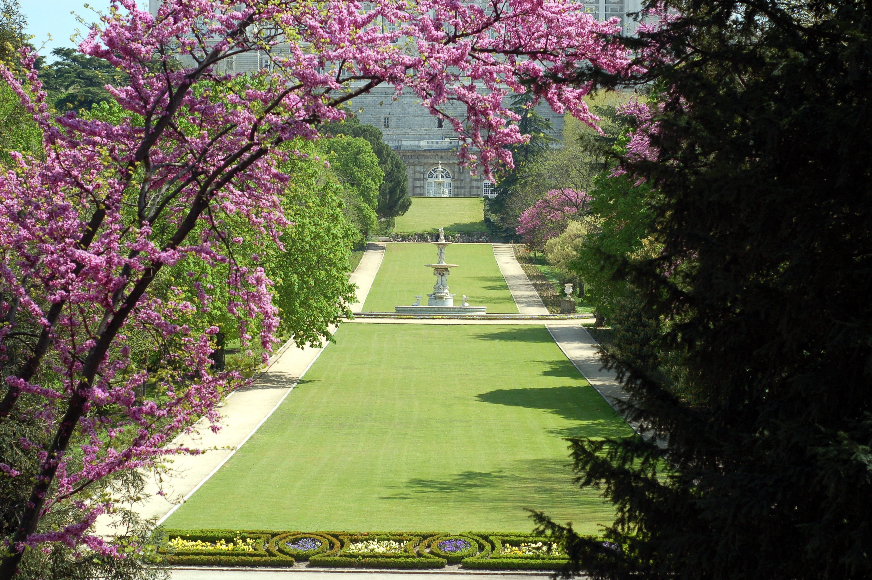 Campo del Moro, gardens beside the Royal Palace of Madrid (in the background), in Madrid (Spain).